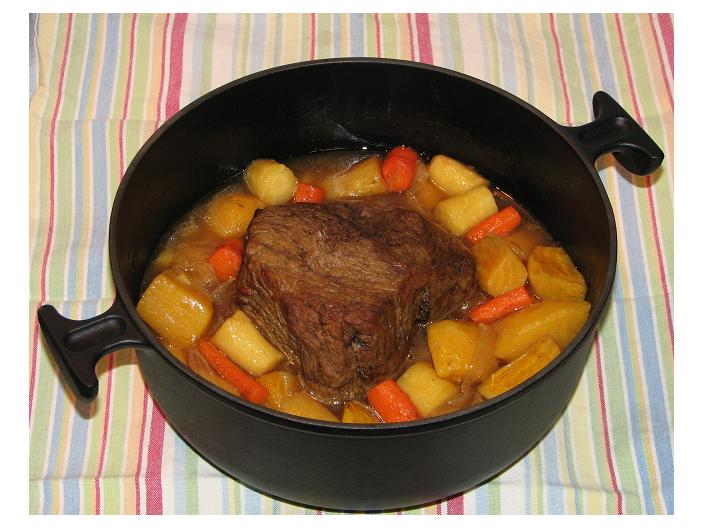 Beef top round with parsnips, carrots, onion, gold beets & rutabega